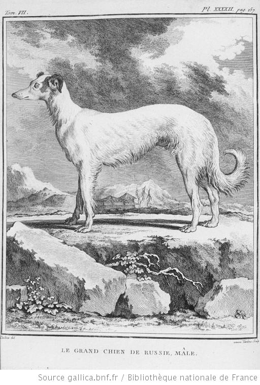 Borzoi (male)